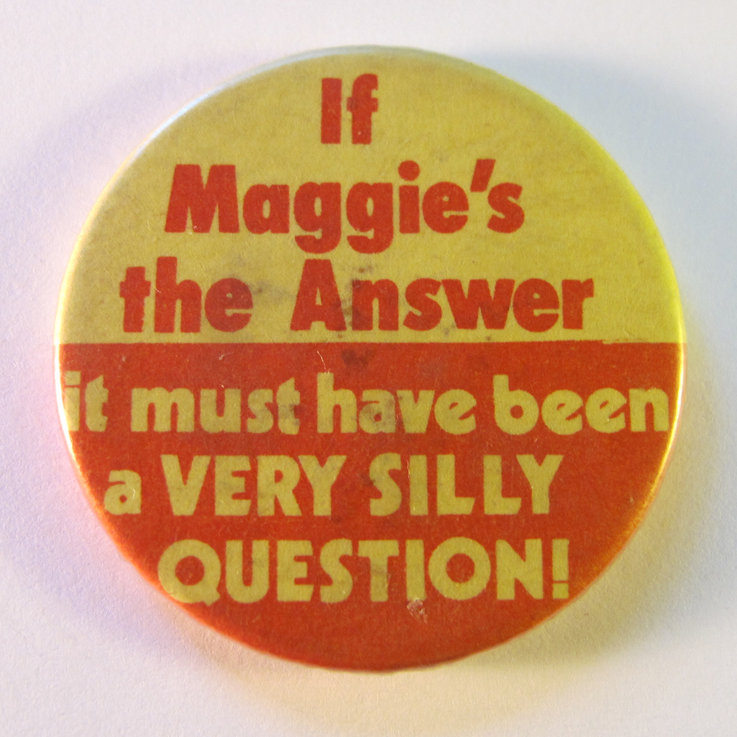 Medium-sized round badge displaying the slogan "If Maggie's the Answer - it must have been a VERY SILLY QUESTION!", 1980s. (Also published on Flickr).